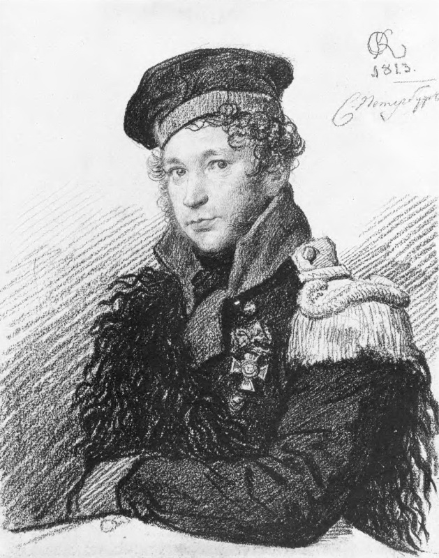 A. Tamilov